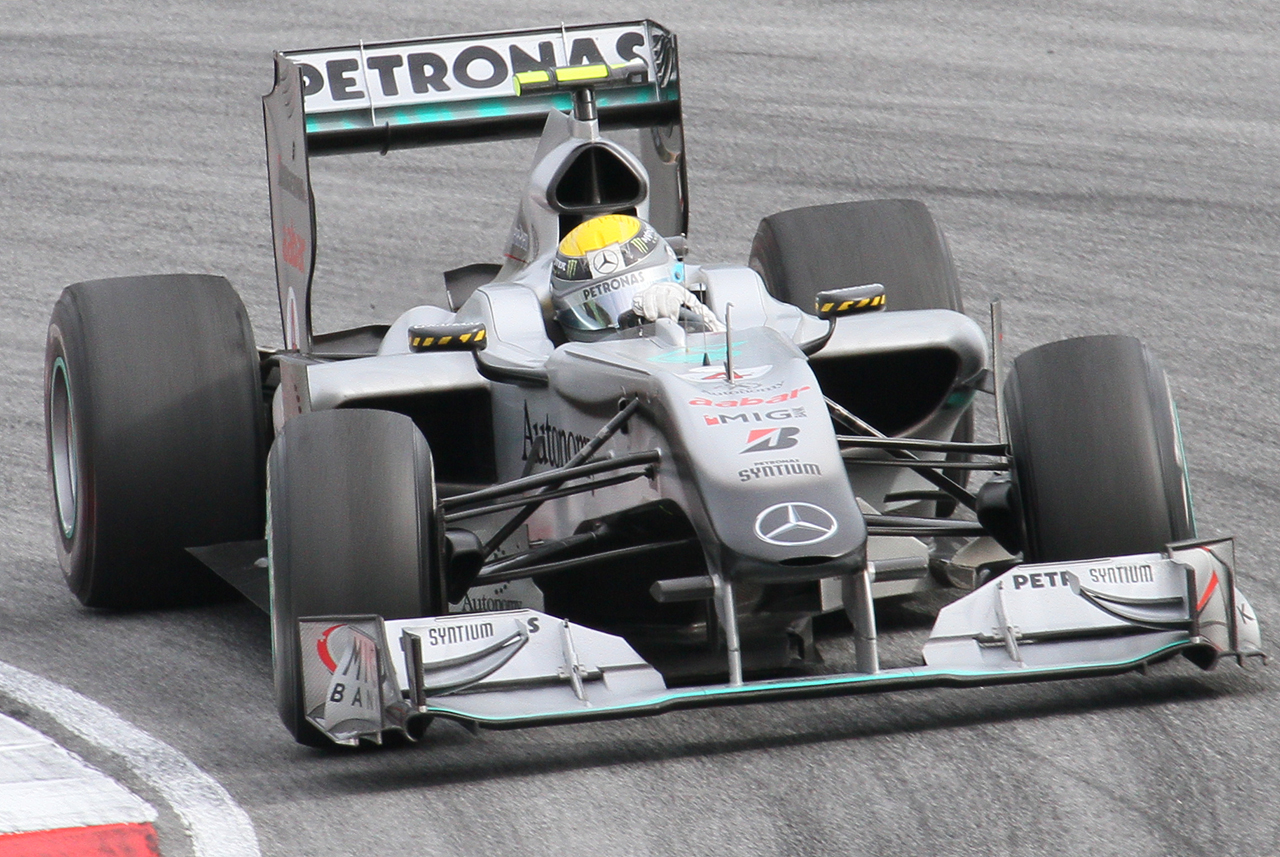 Formula One 2010 Rd.3 Malaysian GP: Nico Rosberg (Mercedes GP) during the race.